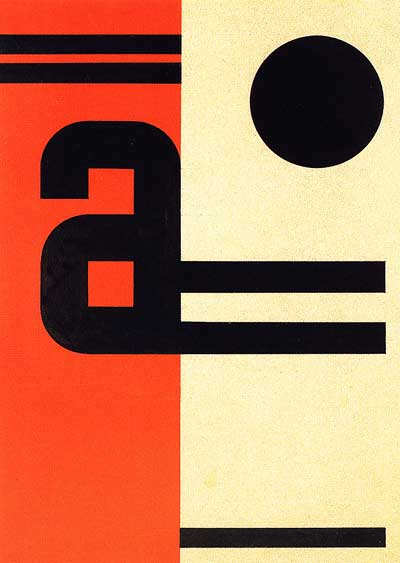 Journal Cover for "Avant Garde" (1929), Kyiv by Ukrainian artist Vasyl Yermylov